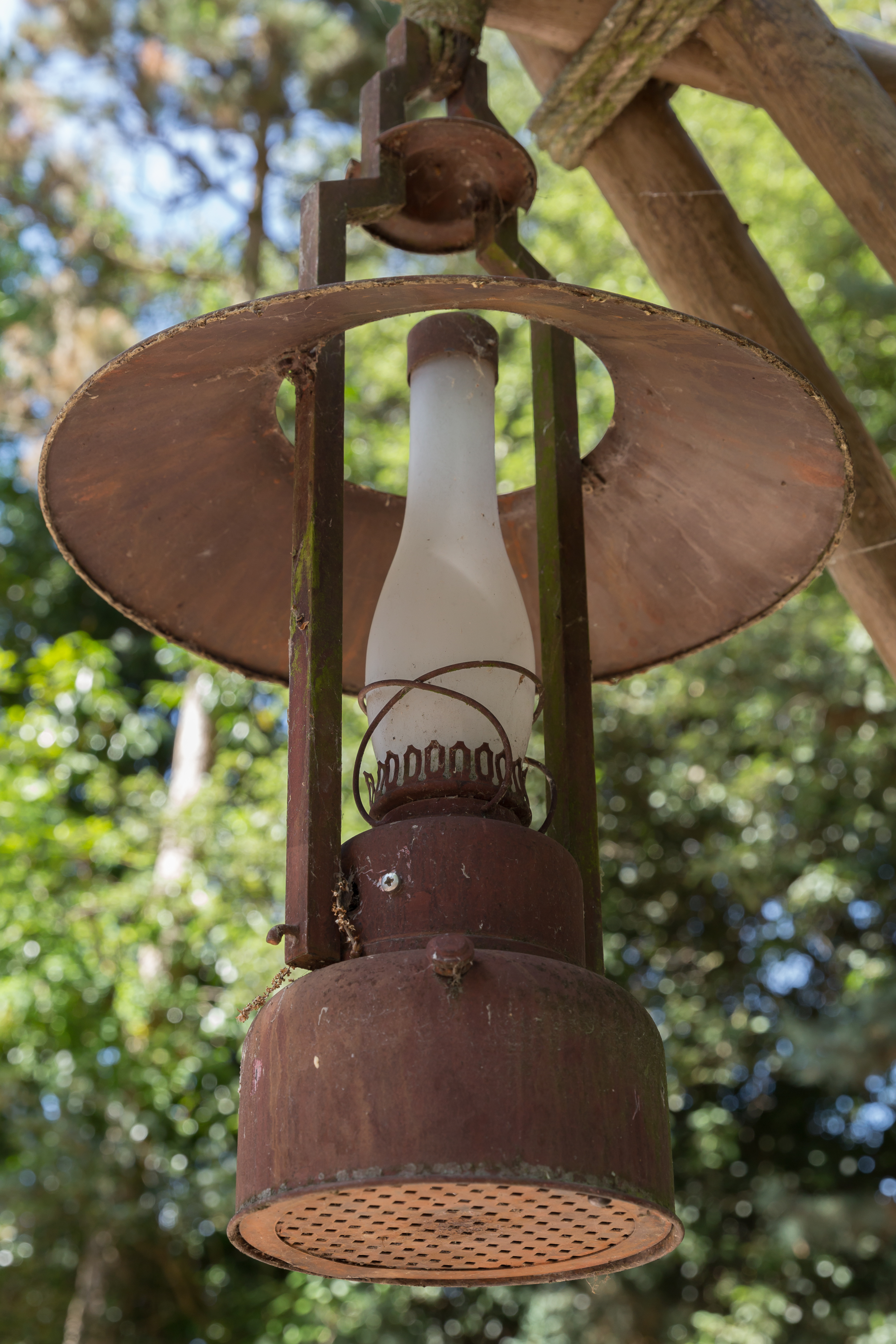 Public lighting. Suspended lantern at Disneyland Paris, Marne-la-Vallée, France.